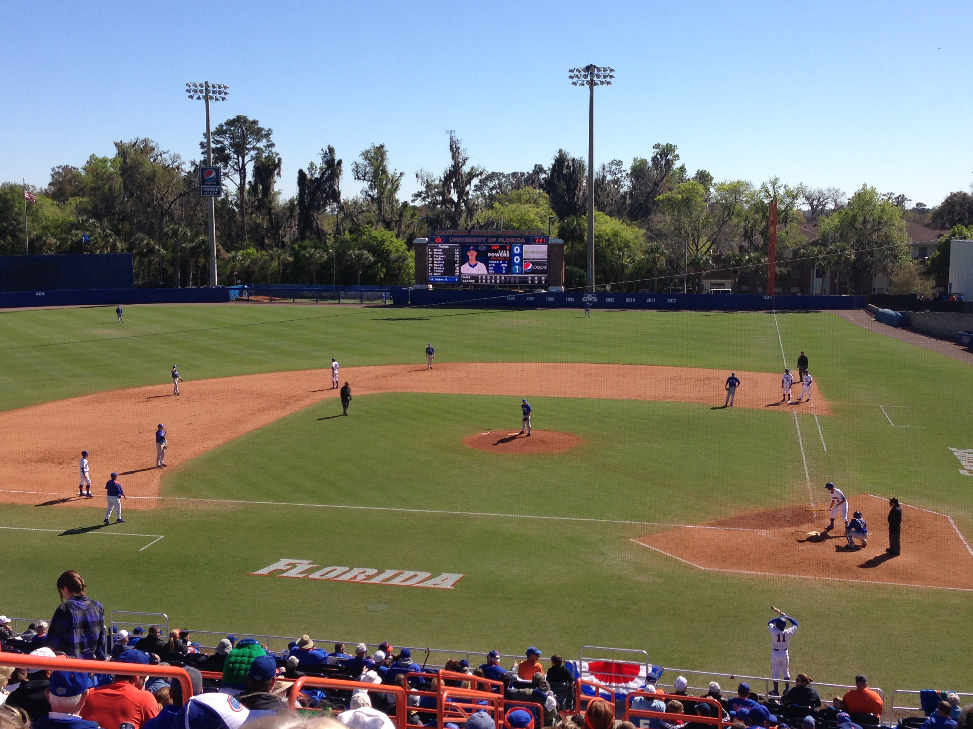 The 2013 Florida Gators baseball team playing a game against the Duke Blue Devils on February 17, 2013.